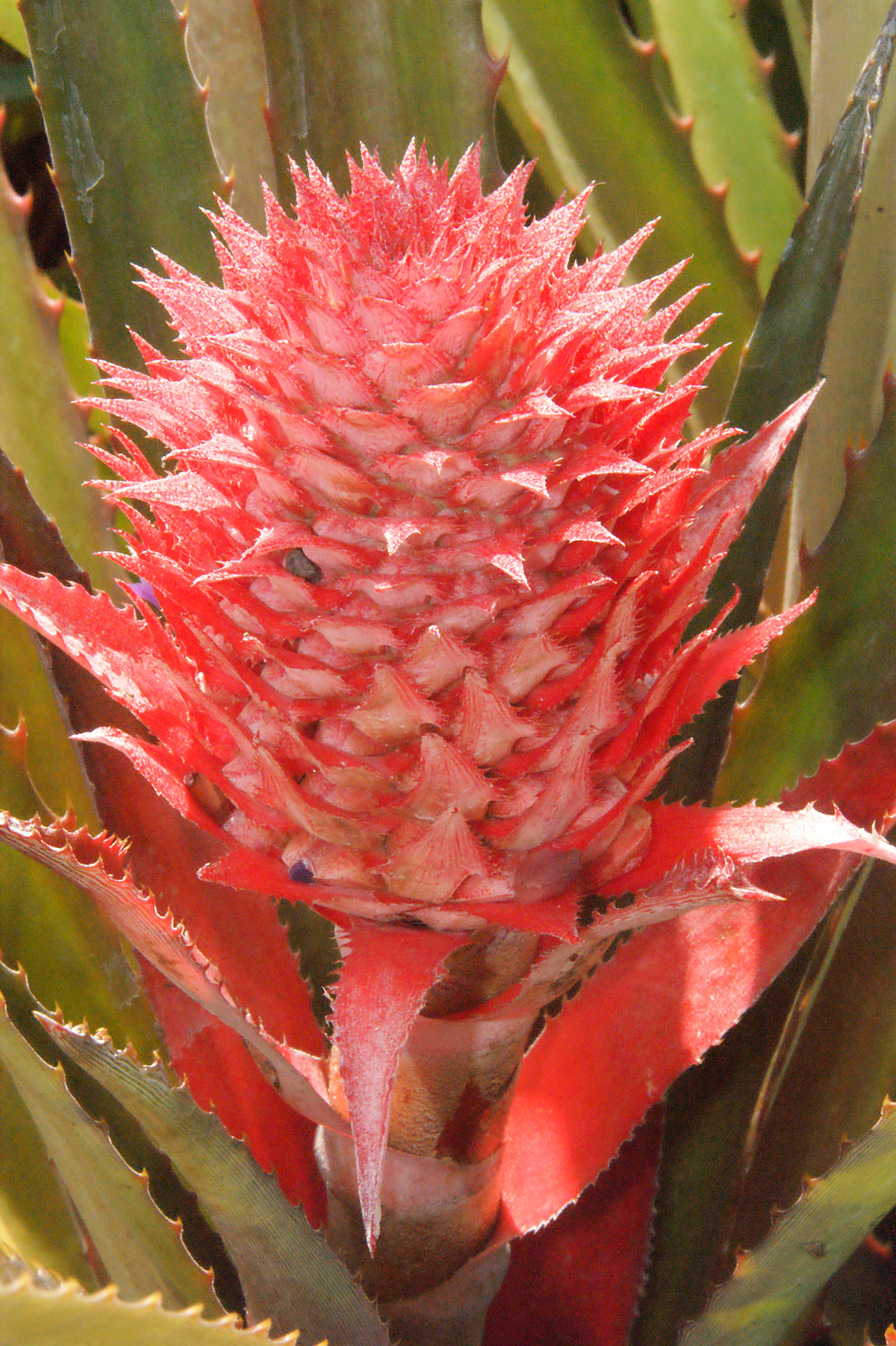 Flower Ananas bracteatus (Photo taken at Dole Plantation, Oahu)